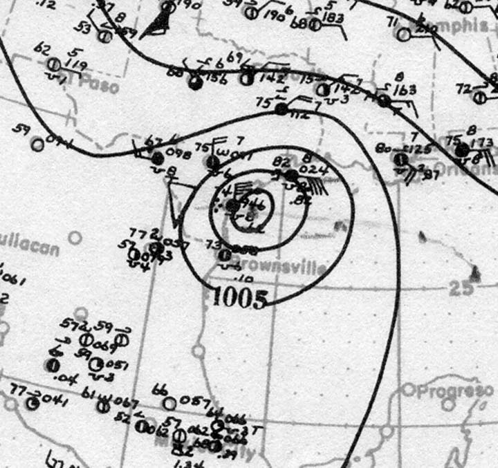 Surface analysis of the 1919 Florida Keys hurricane striking the Texas Coastal Bend on September 14, 1919.